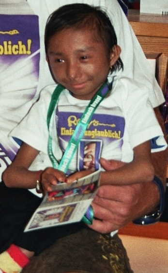 The „shortest man in the world“, Khagendra Thapa Magar, and the „strongest man in the world“, Franz Müllner, at the Frankfurt Book Fair (Frankfurter Buchmesse) 2011 in Frankfurt am Main, Hesse, Germany. They promoted the book Ripley's Einfach unglaublich!, the German edition of Ripley's Believe It or Not!